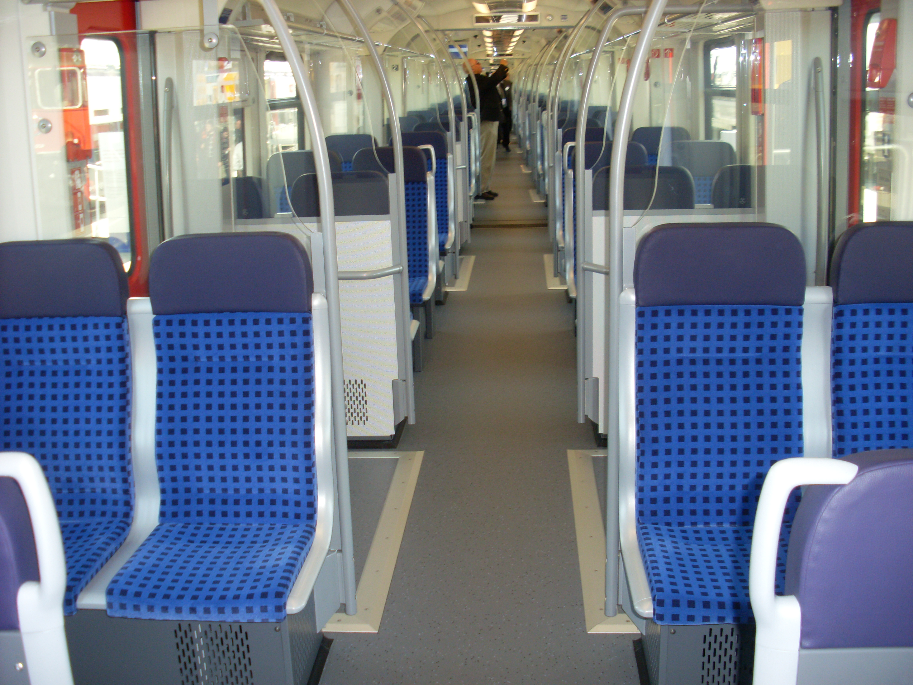 Passenger compartment of the Br 430, at InnoTrans 2012.